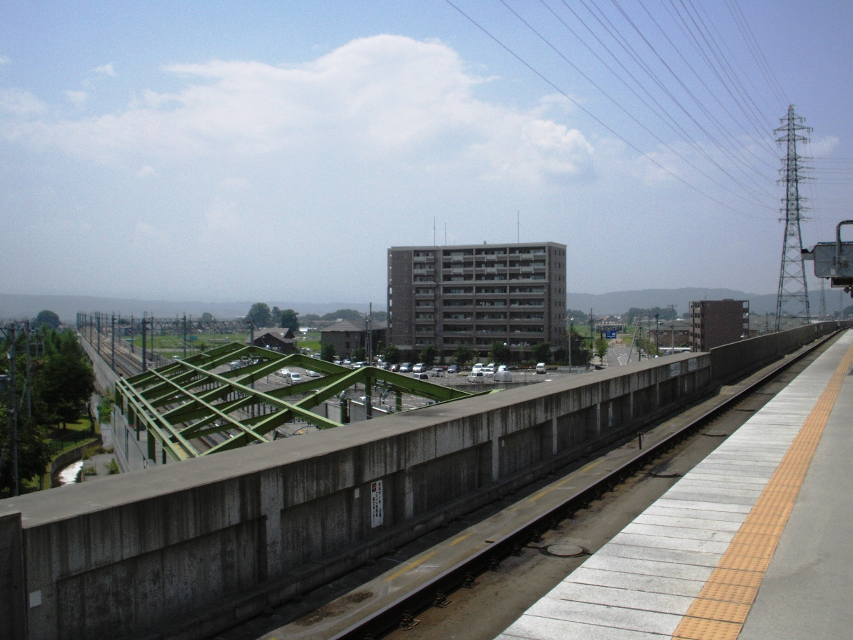 Koumi Line of Sakudaira Station